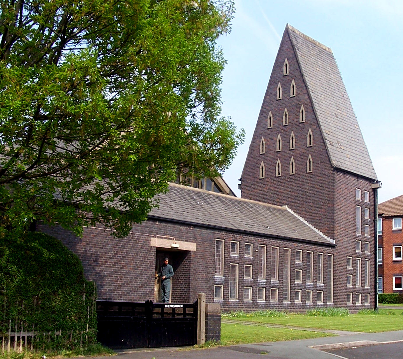 St Mark's Church in Chadderton, Greater Manchester, England.